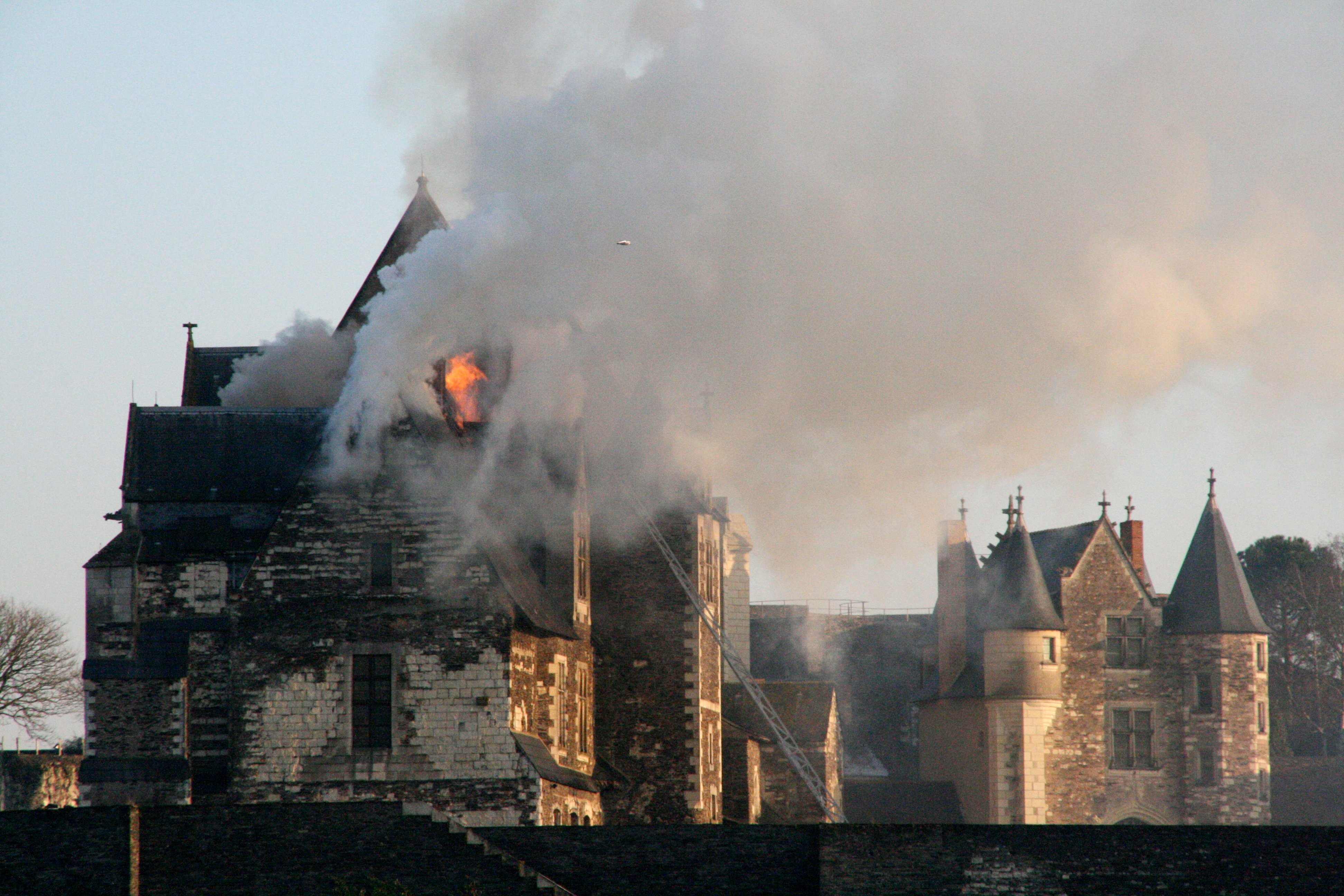 A fire in Angers castle's "logis royal" occurred in January 10, 2009.